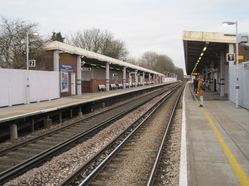 Eltham railway station, Greater London Opened in 1985 by British Rail, this replaced the earlier Eltham Well Hall station (opened in 1895 by the South Eastern Railway) but utilised the eastern end of the former's platforms, underneath the present buildings. In the distance can be seen the entrance to the former Eltham Park station (1908-1935) on the road bridge, showing how close together these stations used to be.